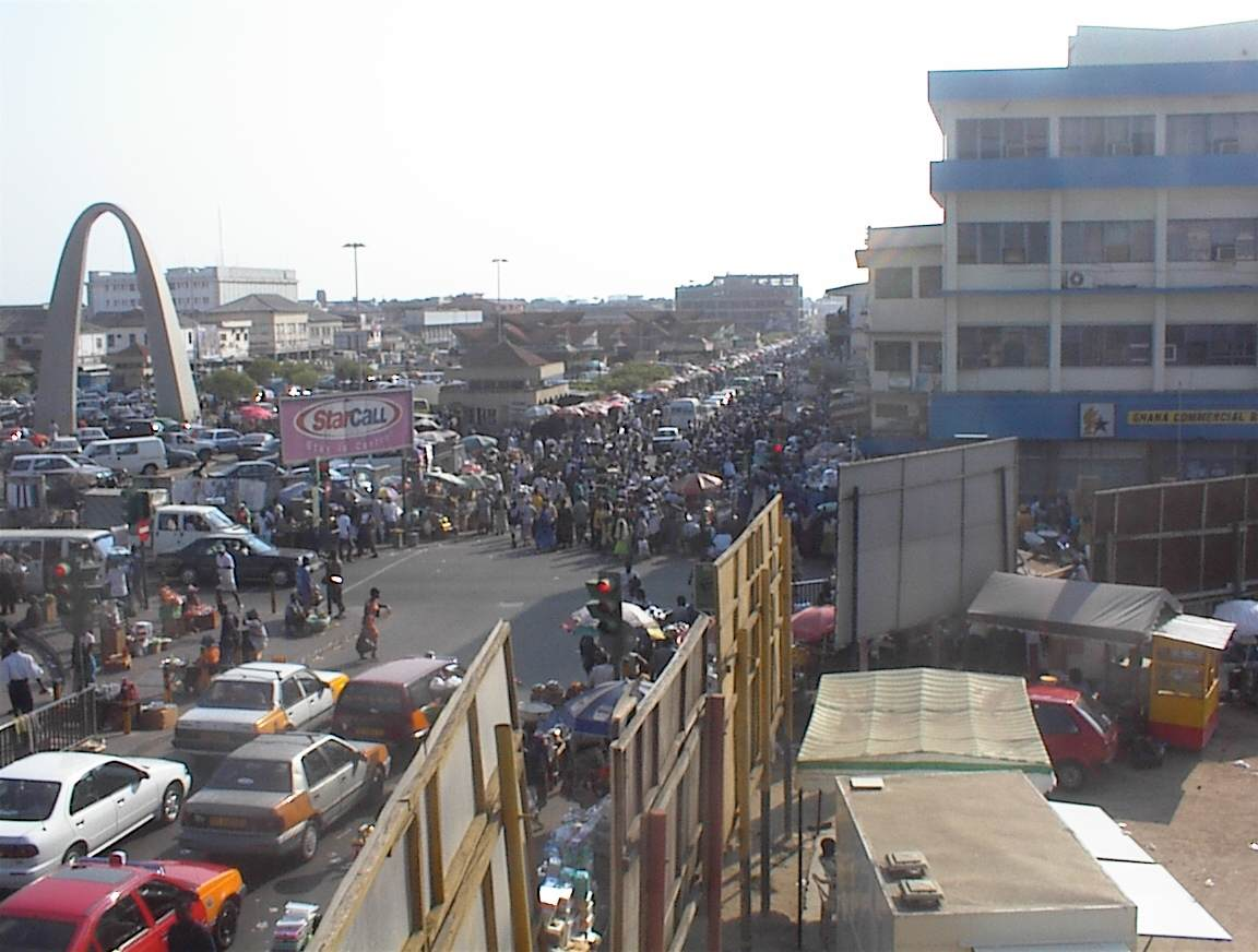 Downtown Accra, capital of Ghana. Picture taken from the top of the building next to Makola market.